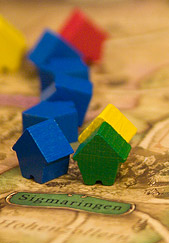 Closeup of 'Thurn and Taxis', a board game we gave a try last Saturday evening. Easy to learn and funny to play. A little bit of strategic talent would not be amiss. More about the game and our gaming session